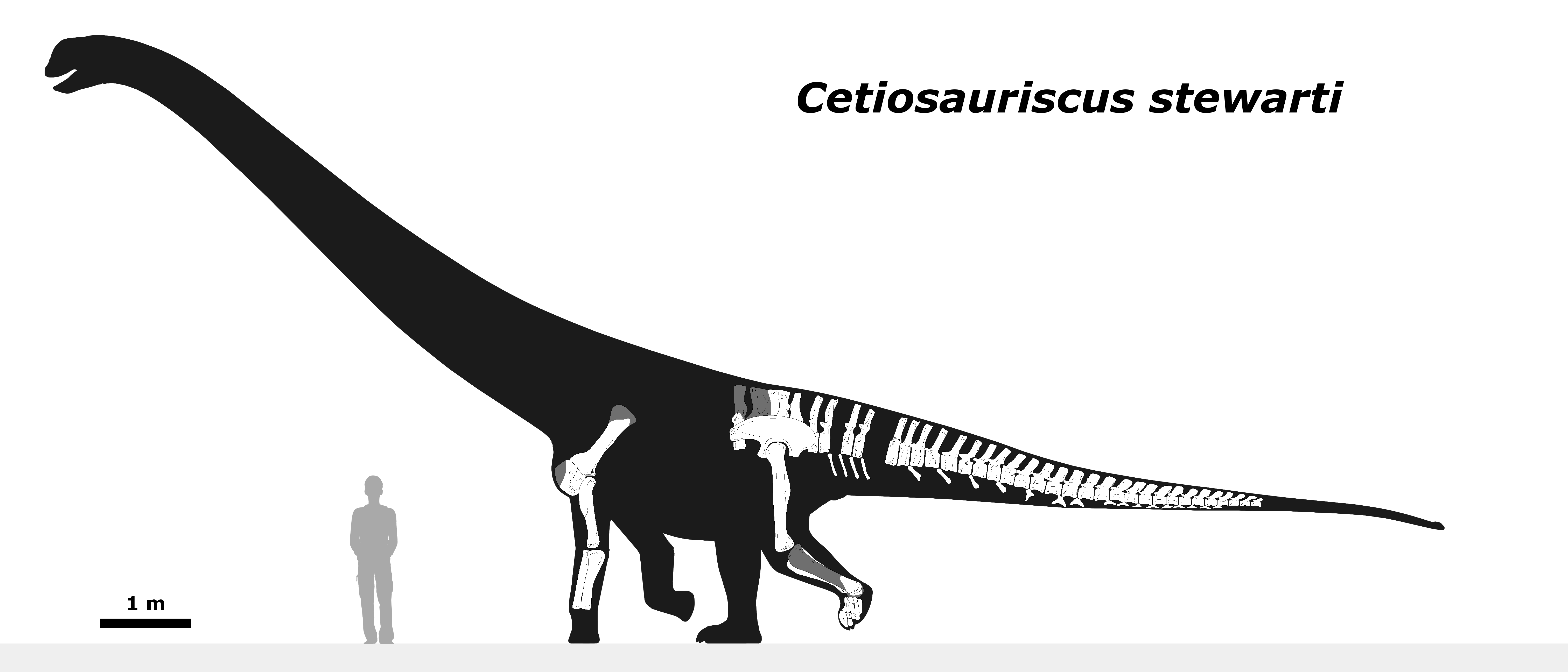 Cetiosauriscus composite skeletal, based on close relatives (such as basal Mammenchisaurs, Cetiosaurs etc.)